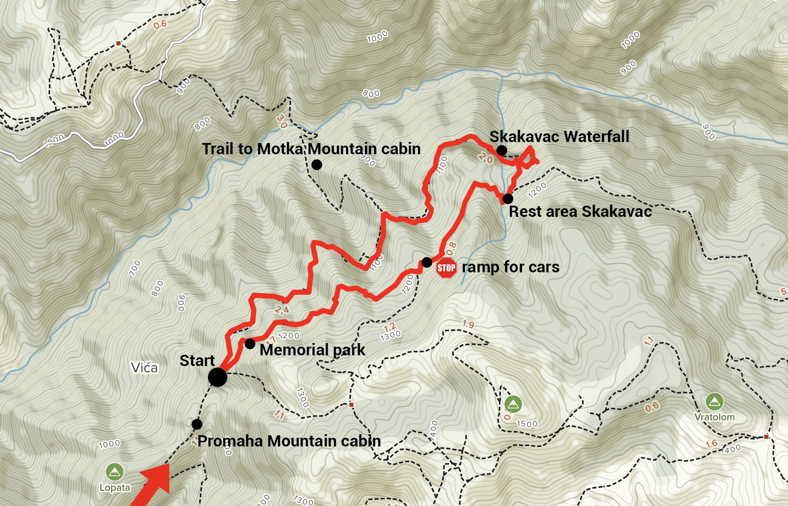 Photo with marked trail with important objects